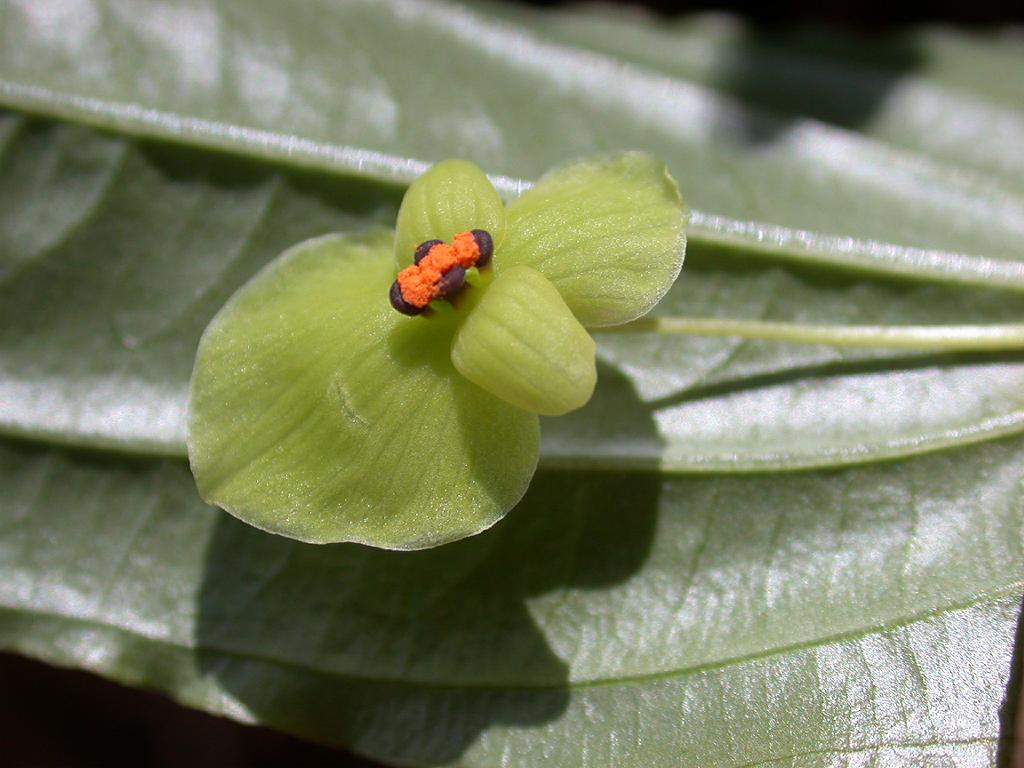 Croomia_heterosepala(Stemonaceae) date:2006.05.05: Tanabe, Wakayama, Japan Author;Keisotyo